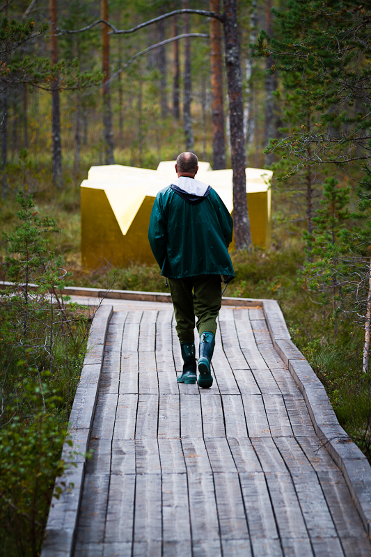 Golden sculpture symbolizing the national parks as "crown jewels of protected areas in Sweden", Hamra national park